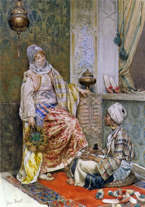 In the Dressing Room